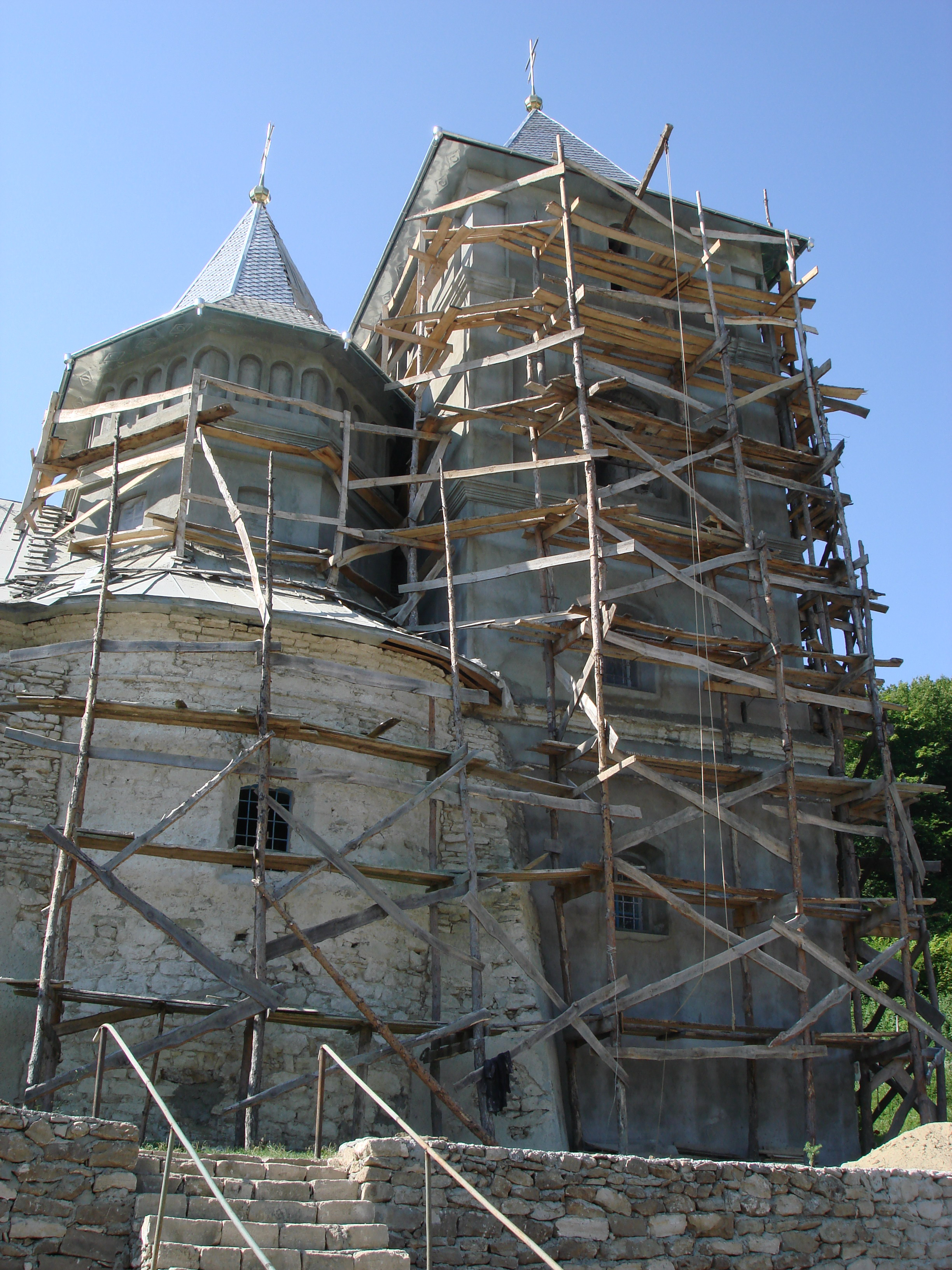 Călărăşeuca monastery, Moldova